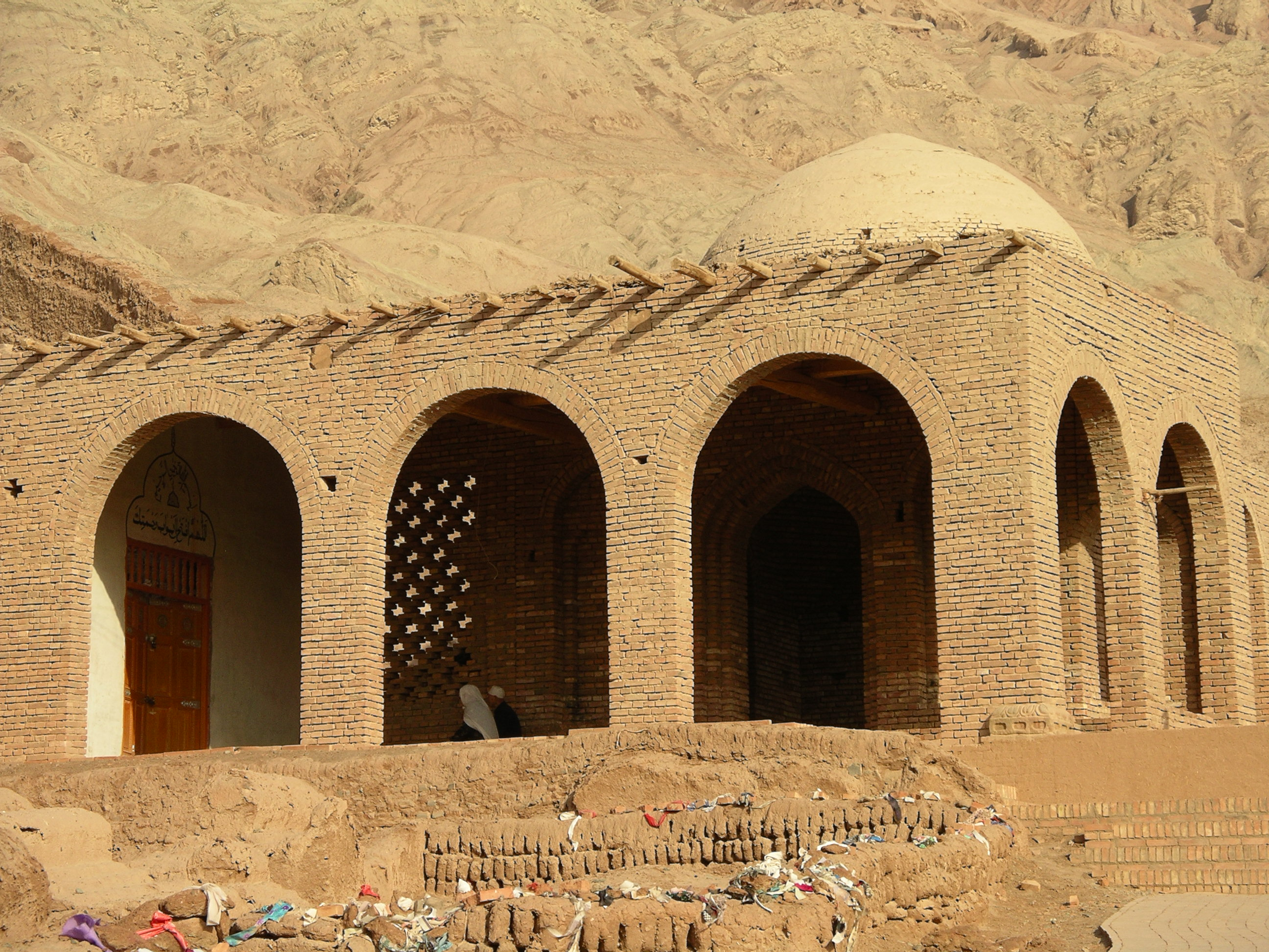 Mosque in Tuyoq (near Turpan), Xinjiang, China